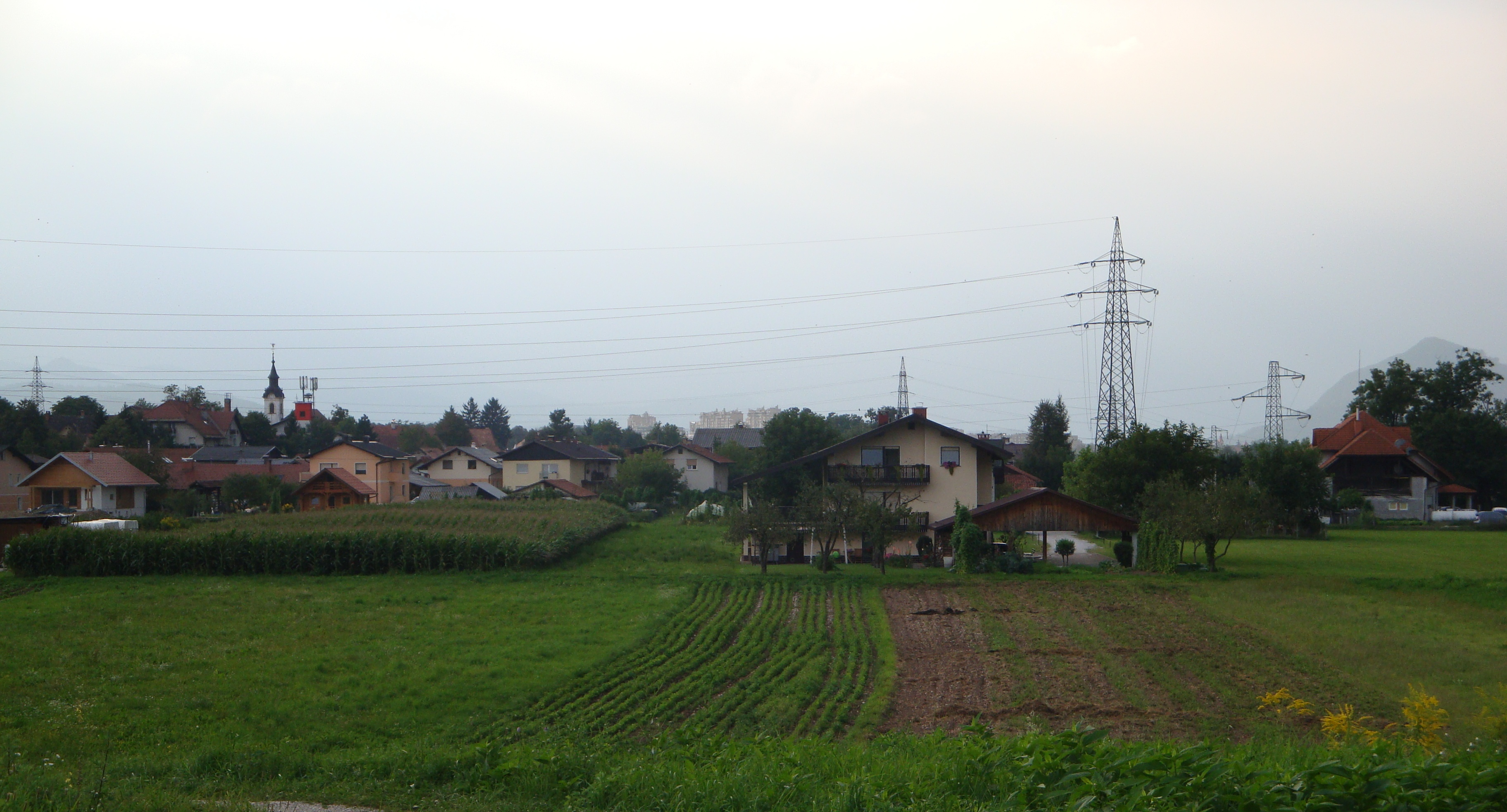 Tomačevo, Ljubljana, Slovenija